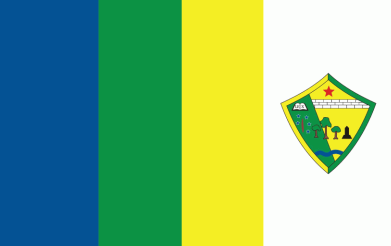 bandeiro de Brasiléia-Ac